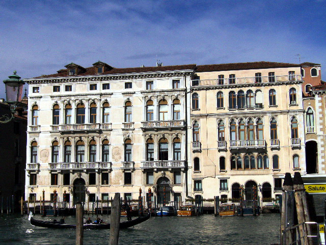 Palazzo Ferro Fini is actually formed by two palazzos: Palazzo Flangini Fini and Palazzo Morosini Ferro Manolesso. It is the seat of the Regional Council of Veneto.